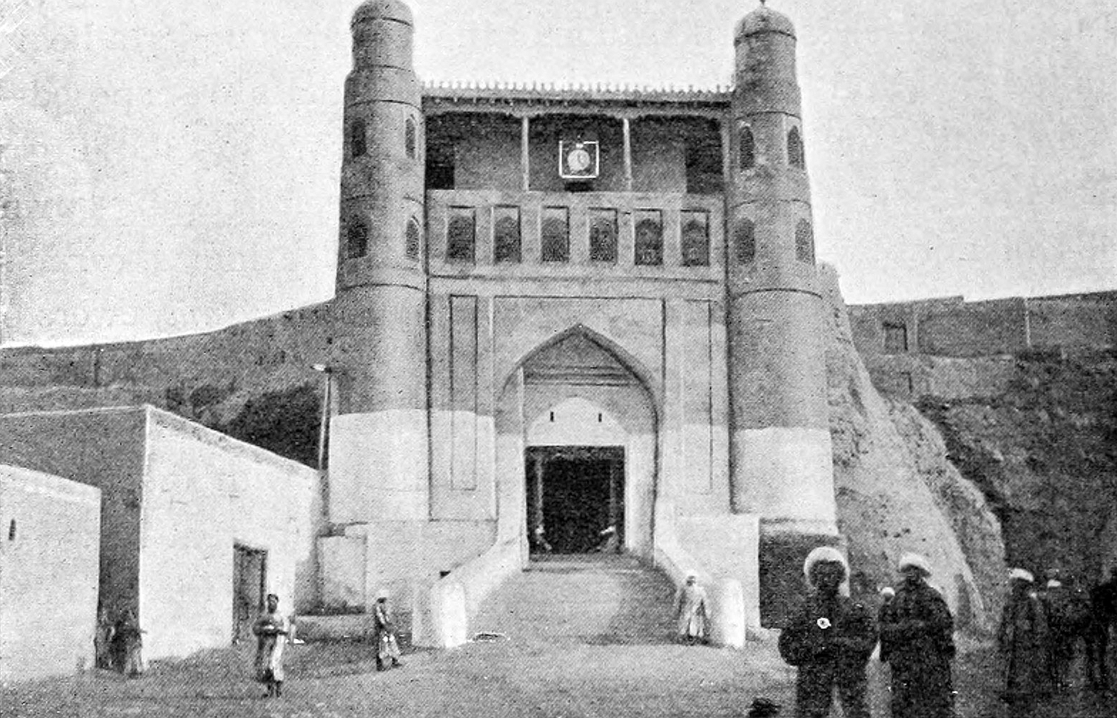 Entrance to Emir's Palace, Bukhara, Uzbekistan.